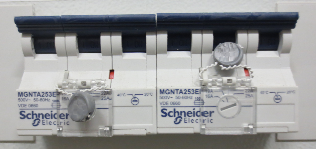 two three-pole tariff switches, each with an adjustment range of 16–25 A of rated current, trip current set to 20 A, switched on, mounted on DIN rail, light gray set screw underneath transparent sealed cover cap